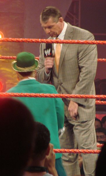 Hornswoggle (in green) and Vince McMahon. Bradley Center, Milwaukee, Wisconsin, September 24en:2007. Taken by me.